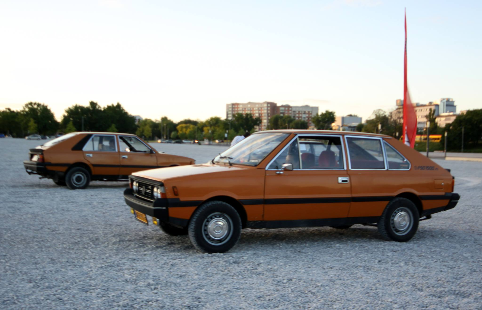 FSO Polonez 1500 X, 3 door version